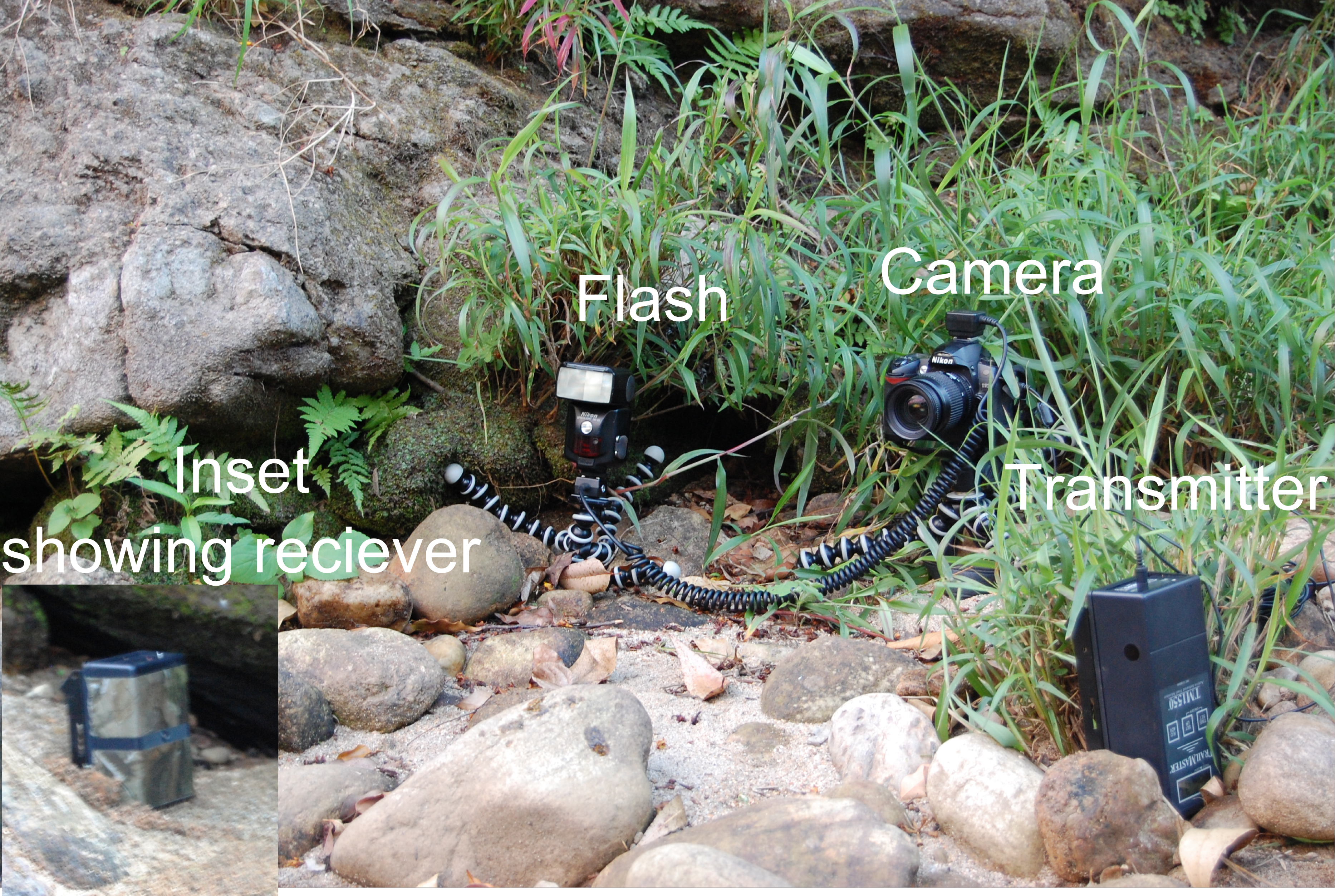 Photo showing camera trap used for photographing nocturnal wildlife. An inset shows the receiver.